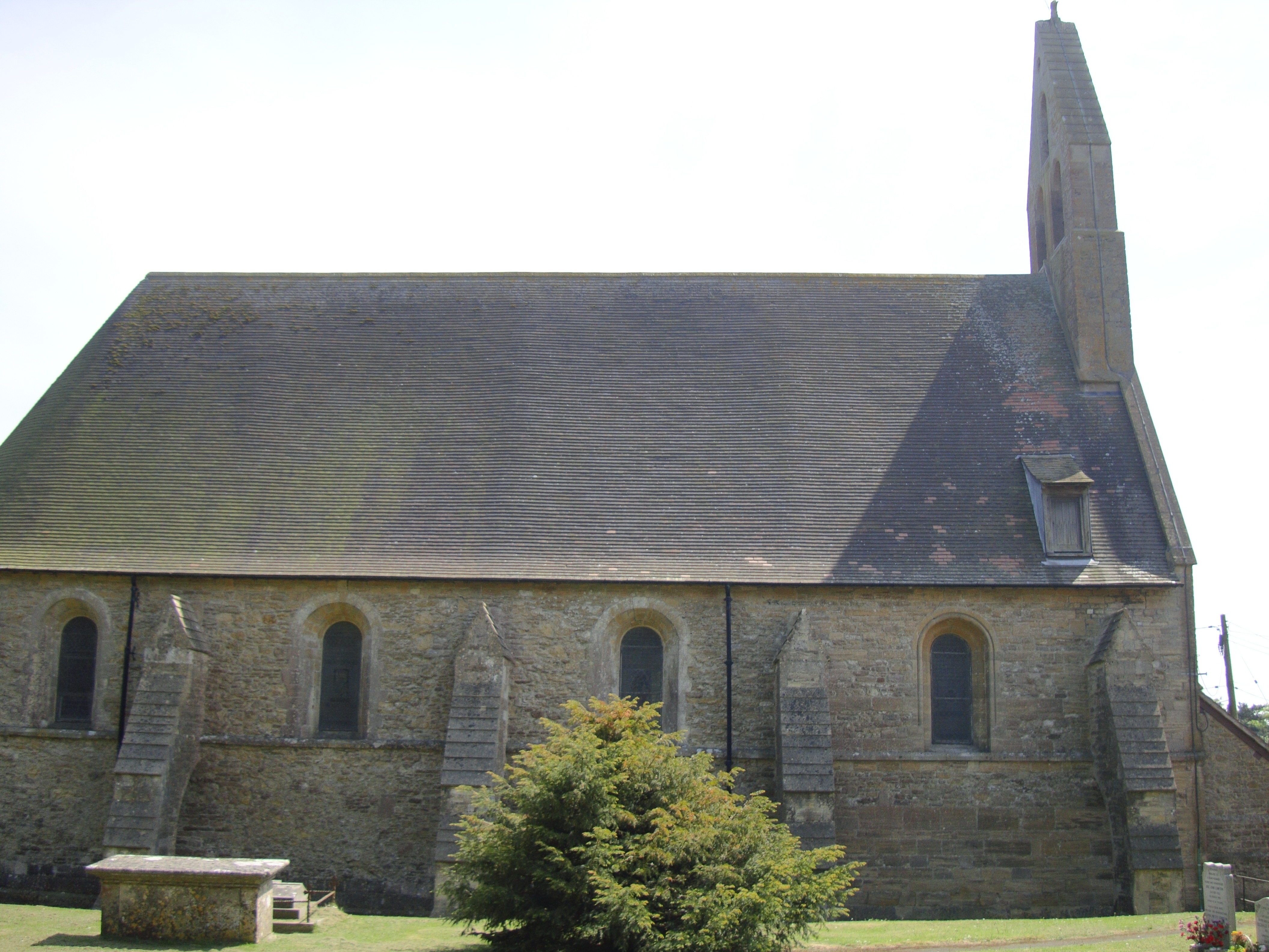 Former lay brothers' church of Witham Friary, now the the parish church of the Blessed Virgin Mary, St John Baptist and All Saints, Postlebury, Somerset, England